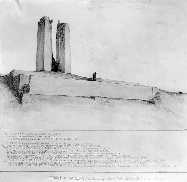 Basic design drawing of the monument submission by Walter Seymour Allward to the Canadian Battlefields Memorials Commission competition.